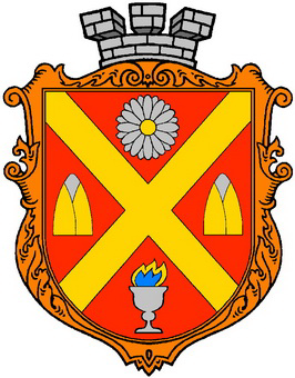 Coat of arms of Andrushivka, Zhytomyr Oblast